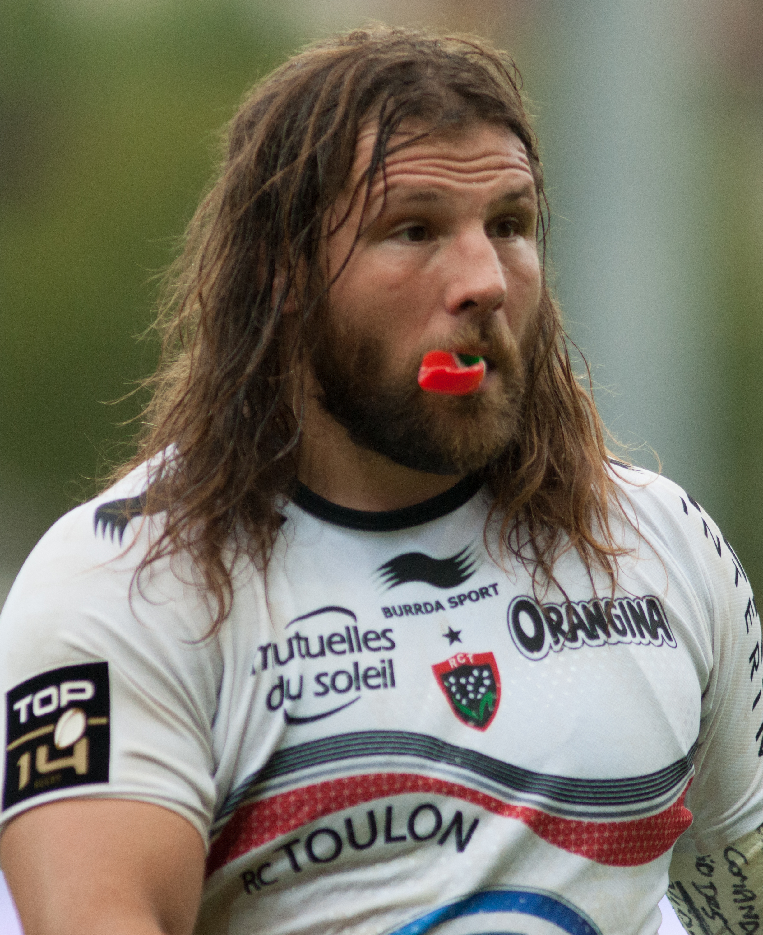 The making of this document was supported by Wikimedia CH. (Submit your project!) For all the files concerned, please see the category Supported by Wikimedia CH. US Oyonnax - Rugby club toulonnais, 28th September 2013